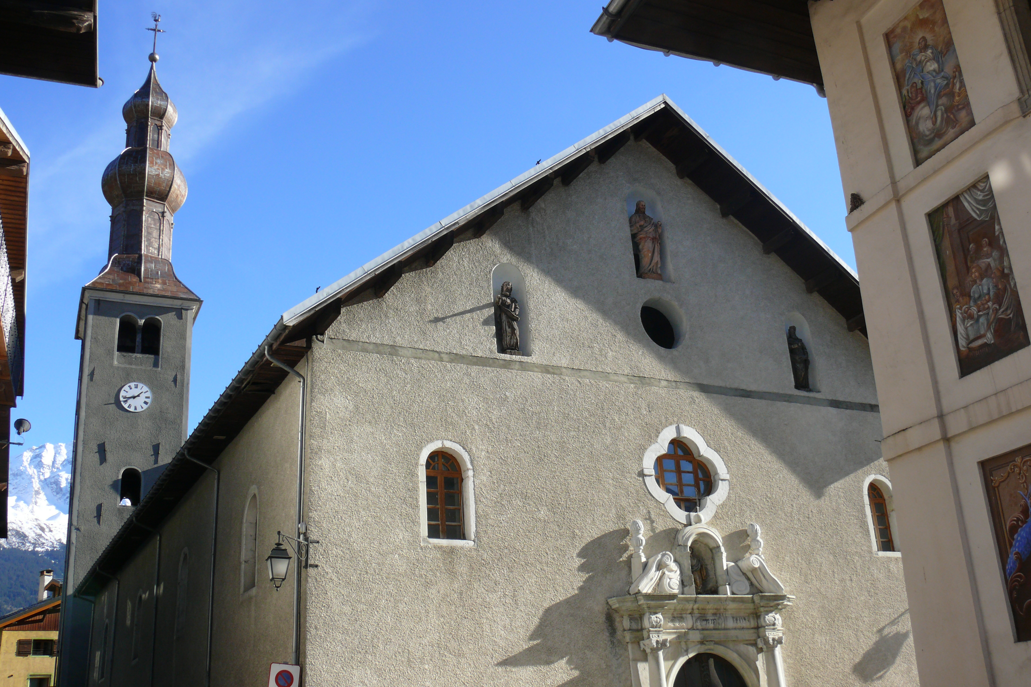 Church of Bozel, Saint François de Sales